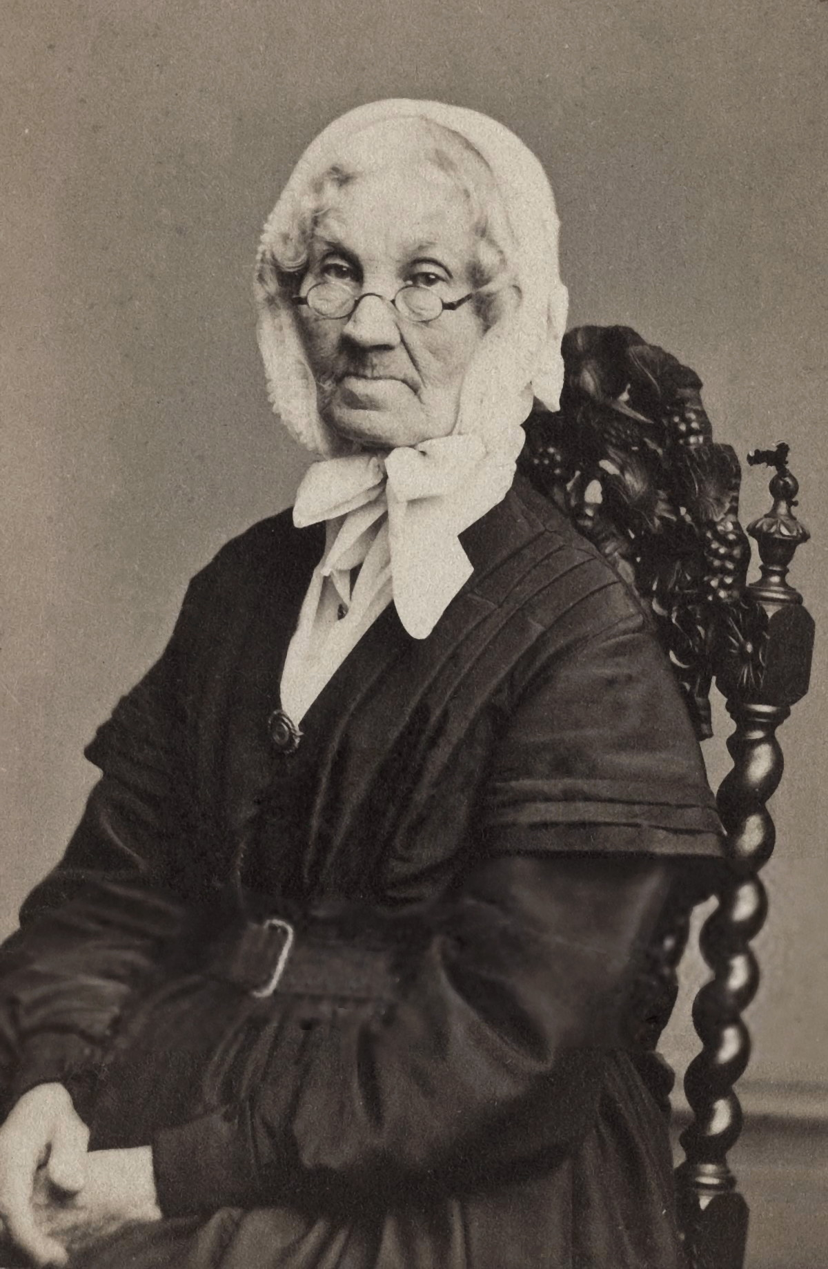 Lucy Bakewell Audubon (d.1874), wife of John James Audubon